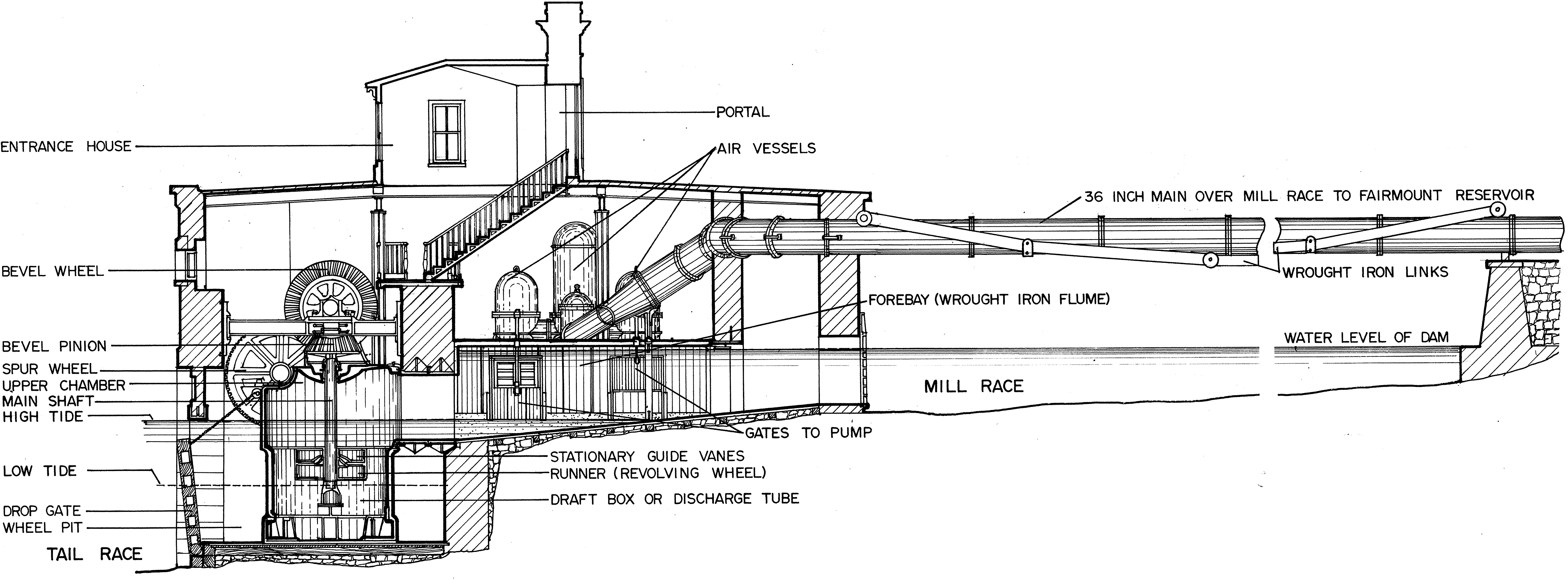 Cutaway view of the Jonval Turbine water pumping system at Fairmount Water Works in Philadelphia, PA